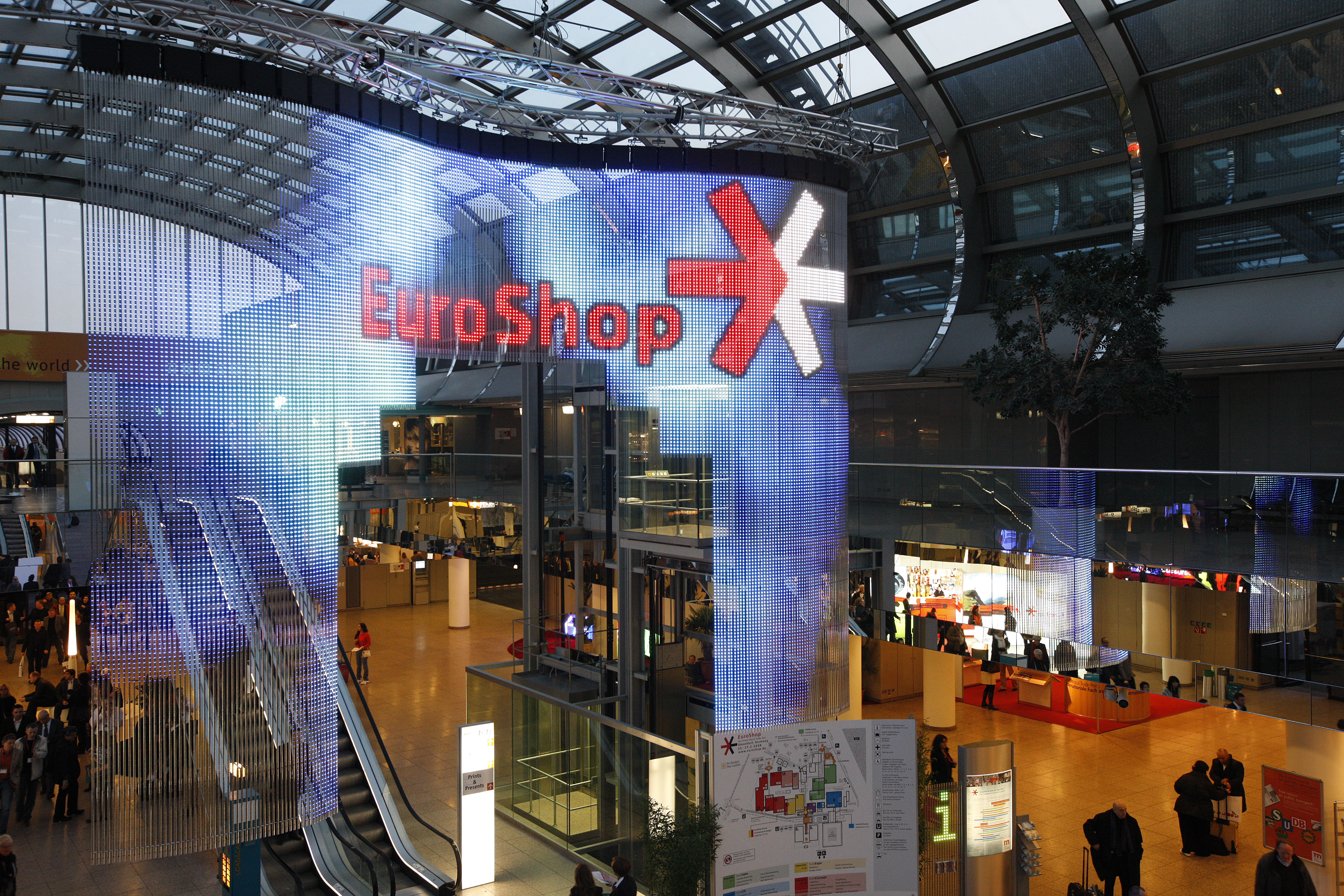 EuroShop 08 trade fair at the Messe Düsseldorf